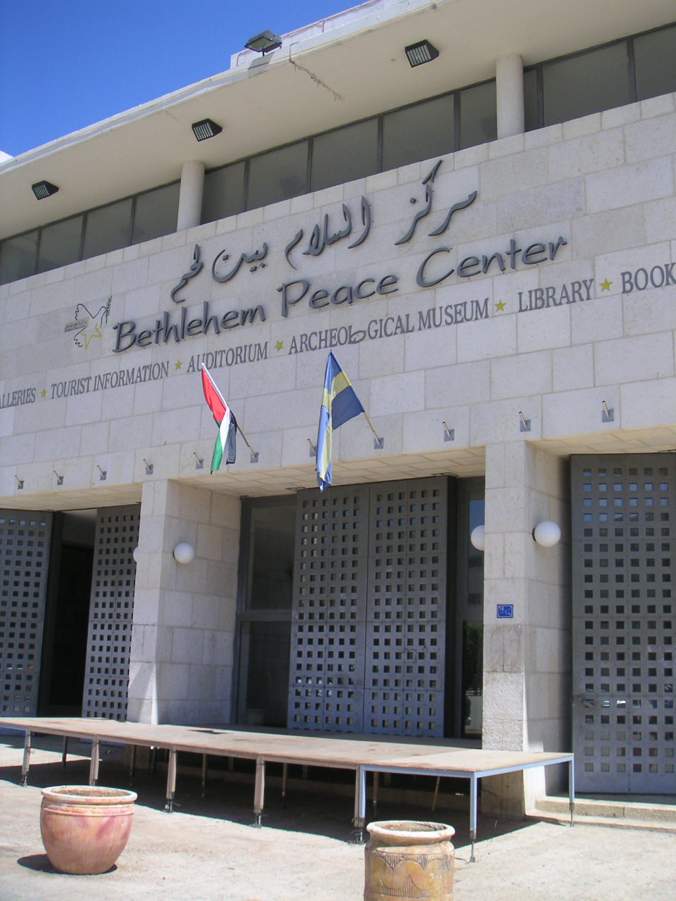 Photo: Soman